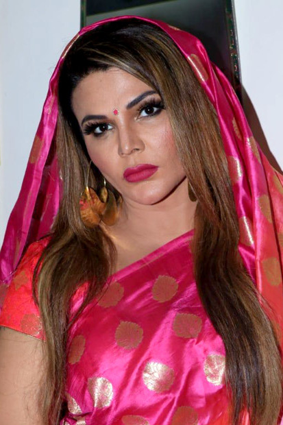 Rakhi Sawant snapped attending a press conference in 2018